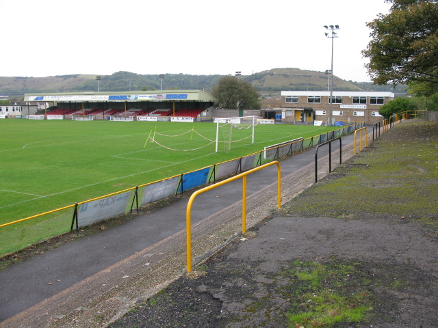 Folkestone Invicta football ground